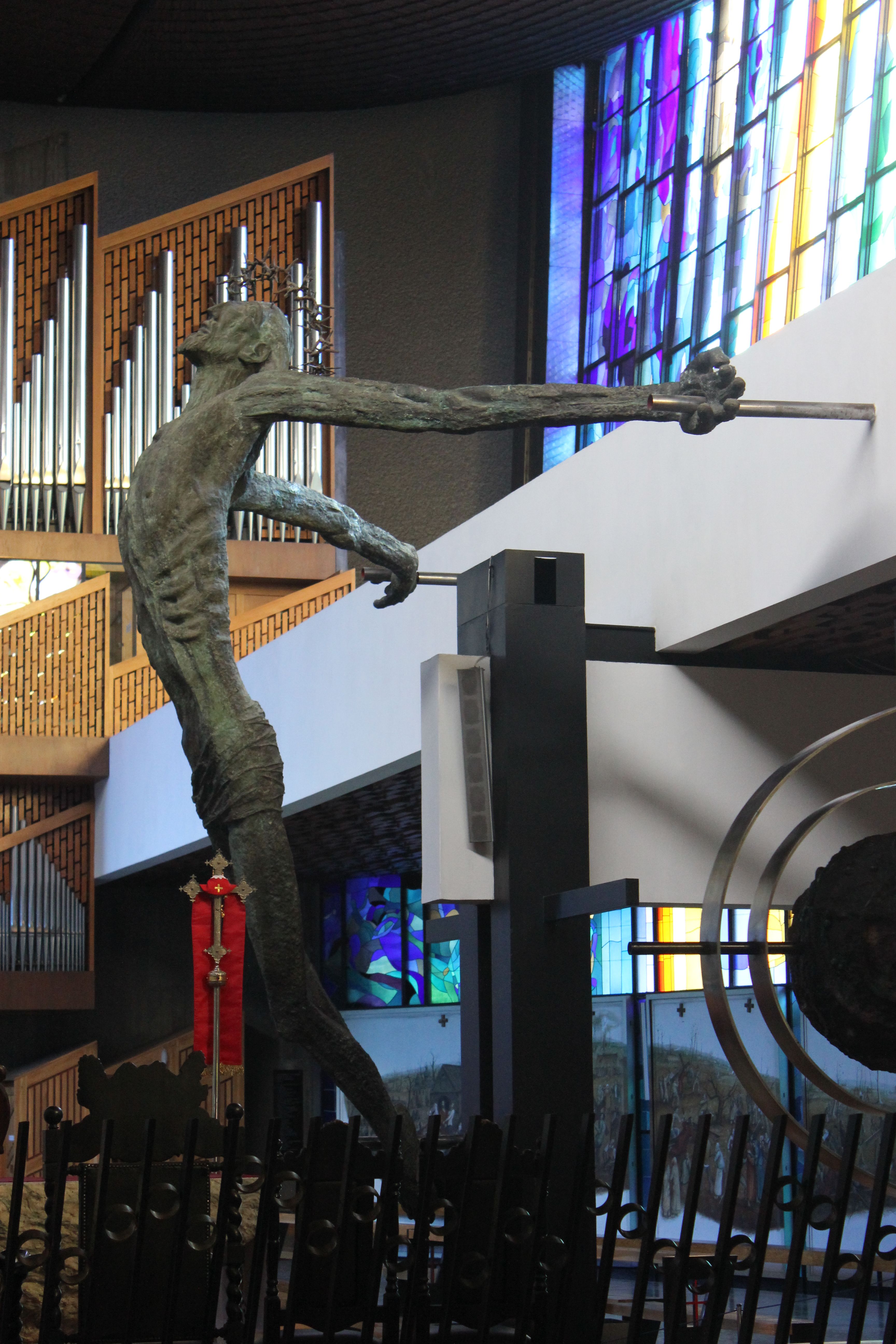 Kraków - the Lord's Ark (church of Mary Queen of Poland)